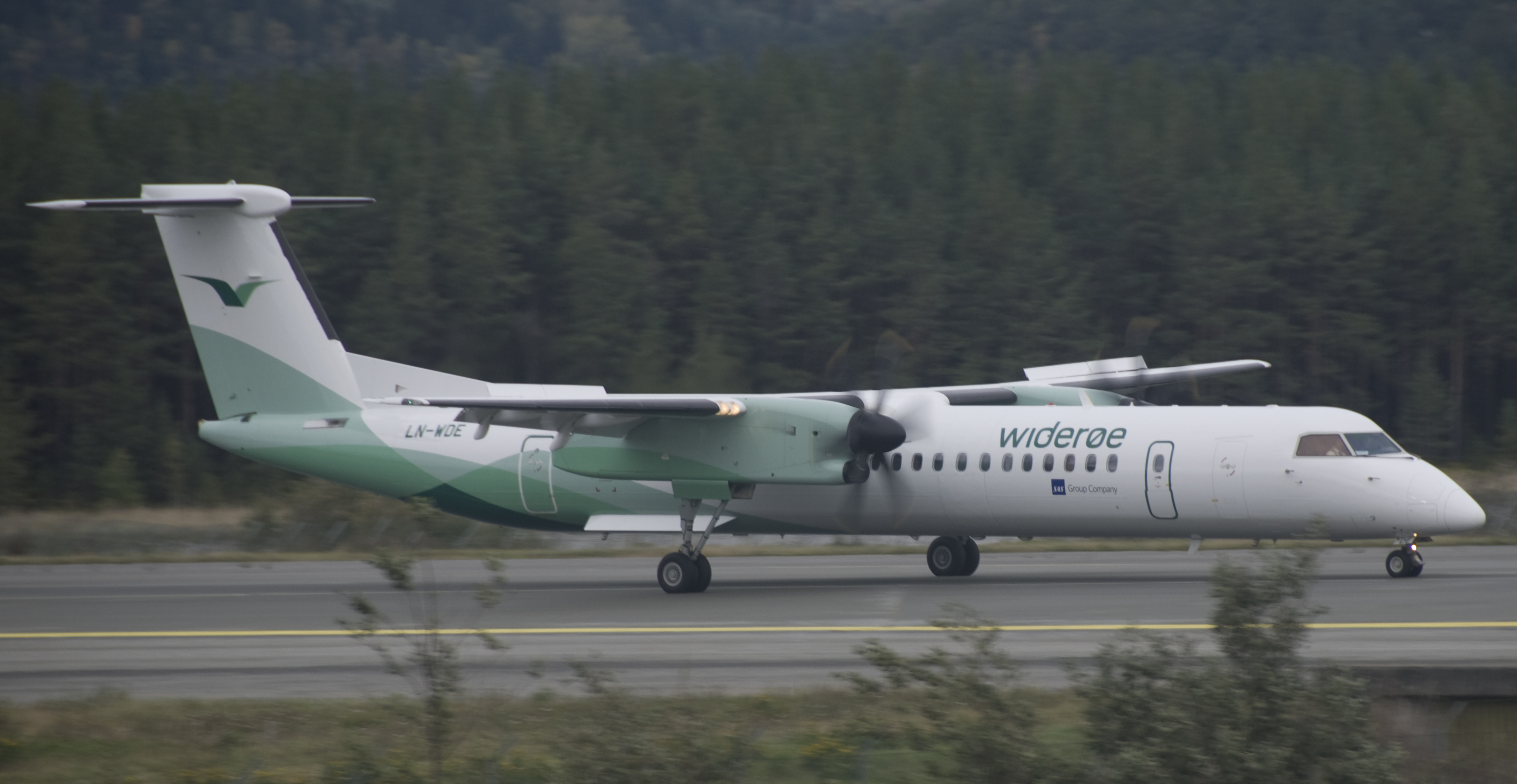 A Widerøe Bombardier Dash 8 Q400 at Trondheim Airport, Værnes